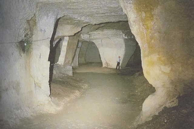 Chapel in Beer Quarry Caves